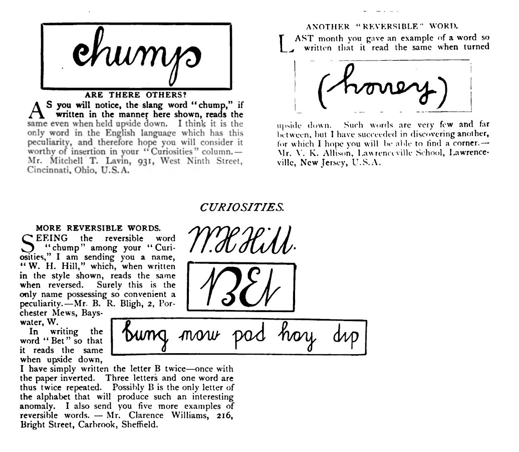 Ambigrams « Chump », « honey », « M. H. Hill », « Bet », « bung », « maw », « pad », « hay », « dip », words published between June and September 1908 in The Strand Magazine. 180° rotational symmetry. Authors: Mitchell T. Lavin, V. K. Allison, B. R. Bligh and Clarence Williams. Text says: "ARE THERE OTHERS! As you will notice, the slang word « chump », if written in the manner here shown, reads the same even when held upside down. I think it is the only word in the English language which has this peculiarity, and therefore hope you will consider it worthy of insertion in your « Curiosities » column. - Mr. Mitchell T. Lavin, 931, West Ninth Street, Cincinnati, Ohio, U.S.A." "ANOTHER « REVERSIBLE » WORD. Last month you gave me an example of a word so written that it read th same when turned upside down. Such words are very few and far between, but I have succeeded in discovering another, for which I hope you will be able to find a corner. - Mr. V. K. Allison, Lawrenceville School, Lawrenceville, New Jersey, U.S.A." "MORE REVERSIBLE WORDS. Seeing the reversible word « chump » among your « curiosities », I am sending you a name, « W. H. Hill », which, when written in the style shown, reads the same when reversed. Surely this is the only name possessing so convenient a peculiarity. - Mr. B. R. Bligh, 2, Porchester Mews, Bayswater, W. In writing the word « Bet » so that it reads the same when upside down, I have simply written the letter B twice – once with the paper inverted. Three letters and one word are thus twice repeated. Possibly B is the only letter of the alphabet that will produce such an interesting anomaly. I also send you five more examples of reversible words. - Mr. Clarence Williams, 2016, Bright Street, Carbrook, Sheffield."